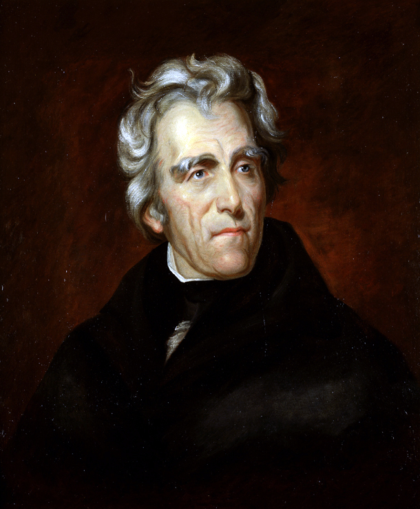 Andrew Jackson - 7th President of the United States (1829–1837)